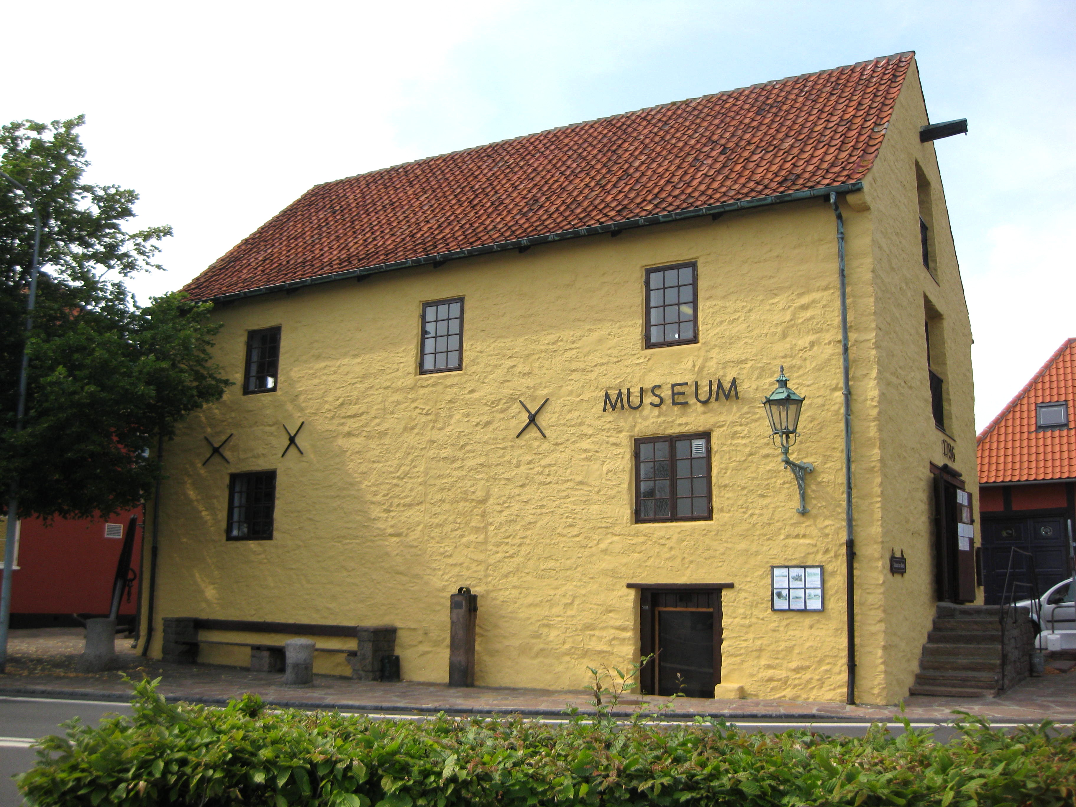 "Nexø Museum" located in the small town "Nexø" on the island Bornholm (east Denmark).